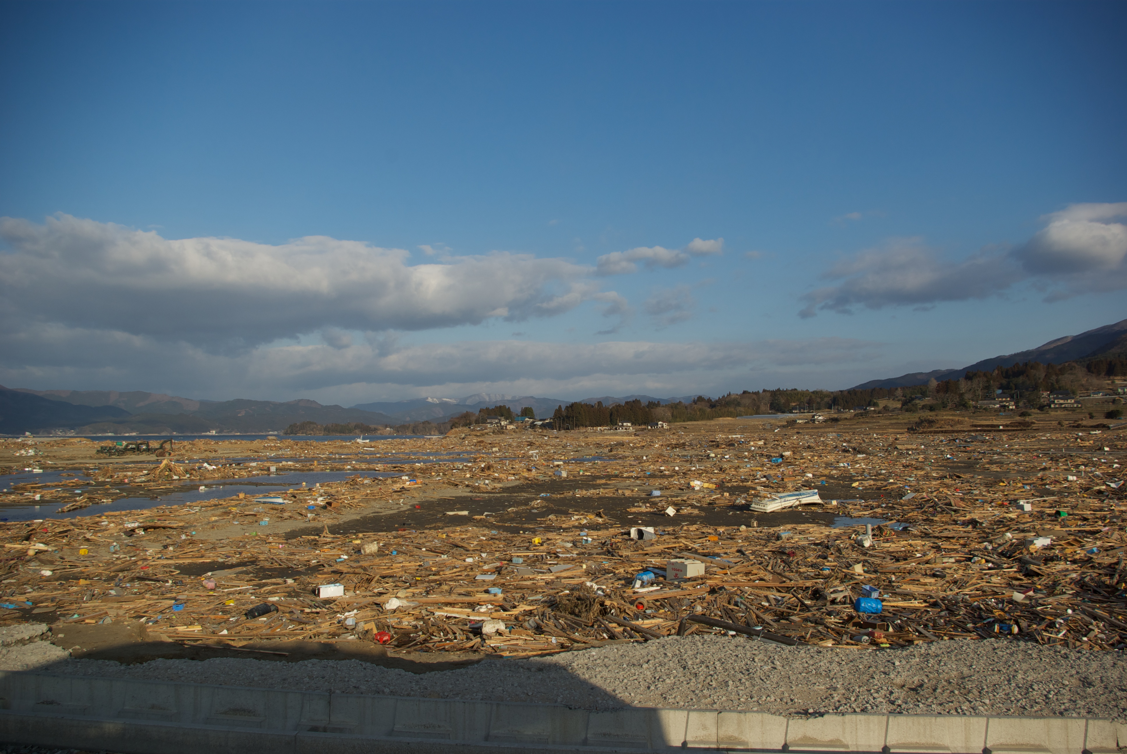 Distant view of Rikuzentakata, Iwate, Japan.